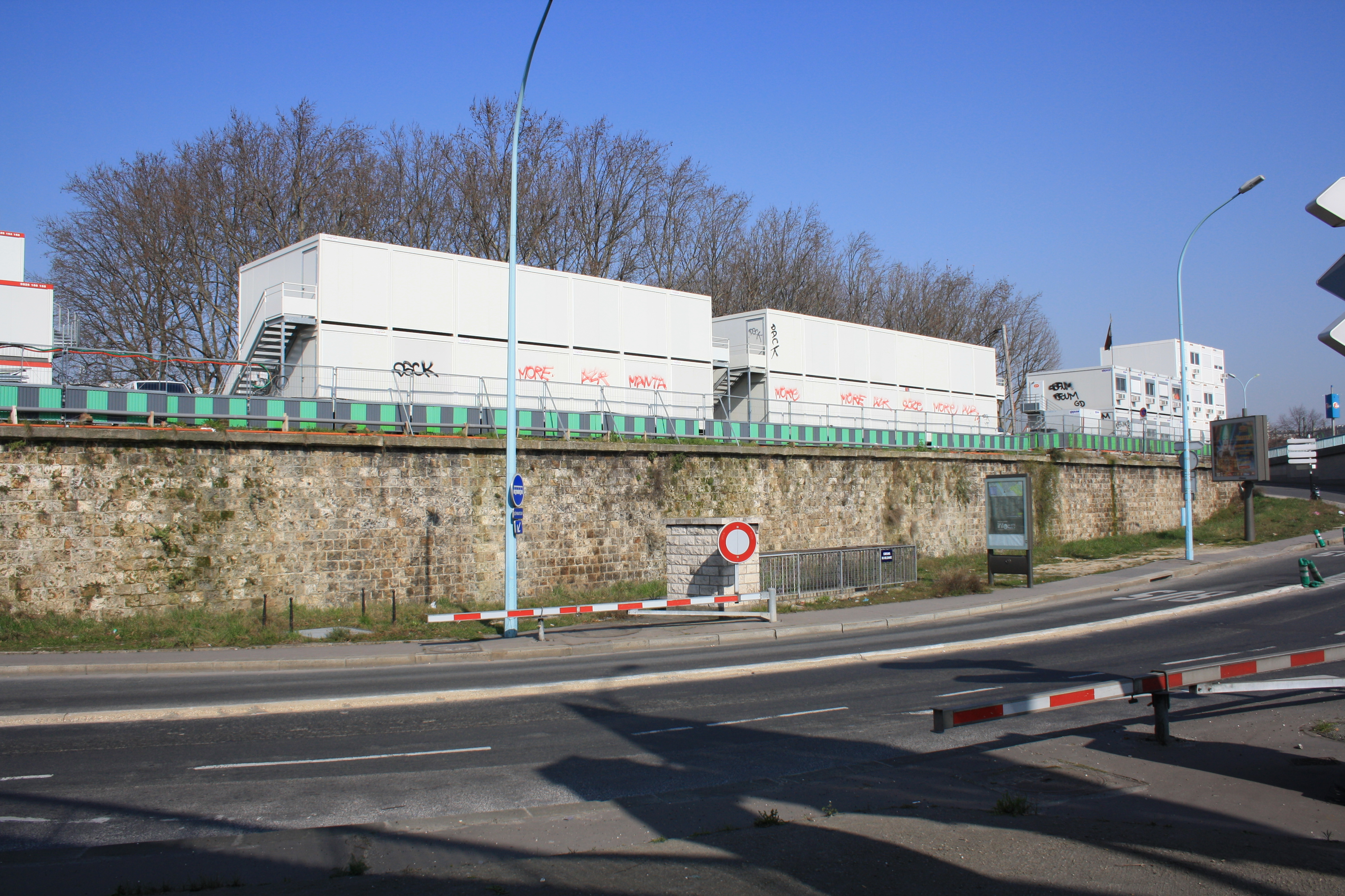 Rue Robert-Etlin and the wall of the Bastion no 1 in Paris, France